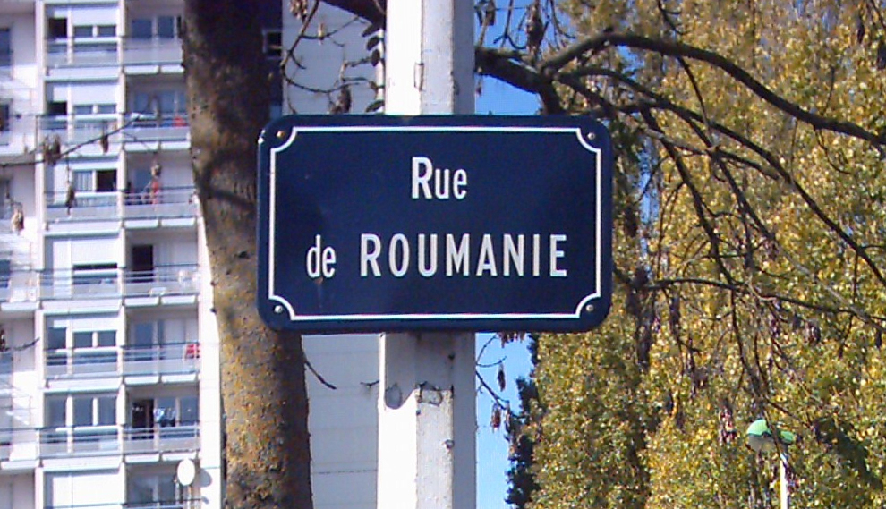 Romania Street in Rennes, France